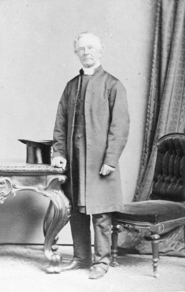 Depicted person: Matthew Hale – Australian bishop